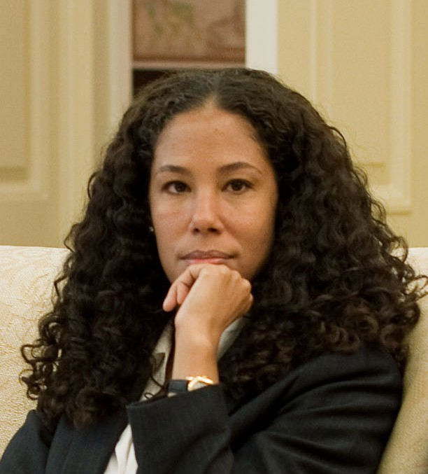 President Barack Obama meets with, from left, Senior Advisor Pete Rouse, Communications Director Anita Dunn and Deputy Chief of Staff Mona Sutphen in the Oval Office, Oct. 13, 2009. (Official White House Photo by Pete Souza) Flickr tags: Washington, DC, USA